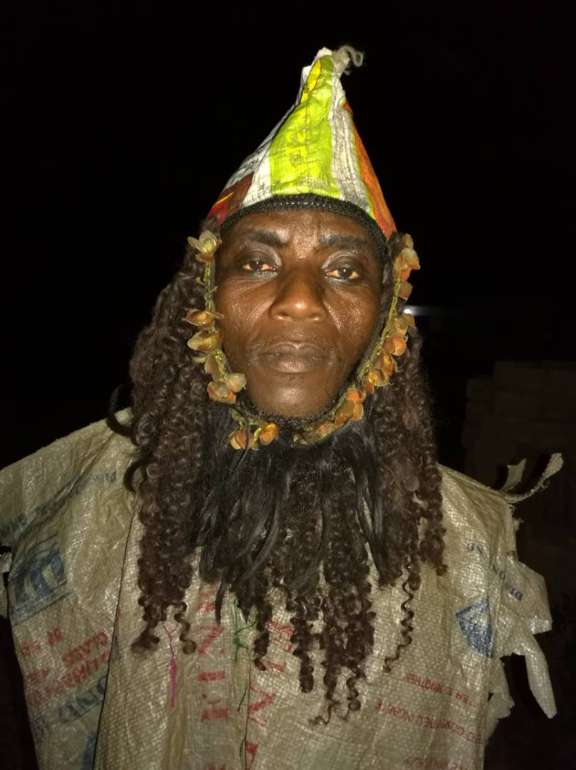 Gbedzimido dancer in costume